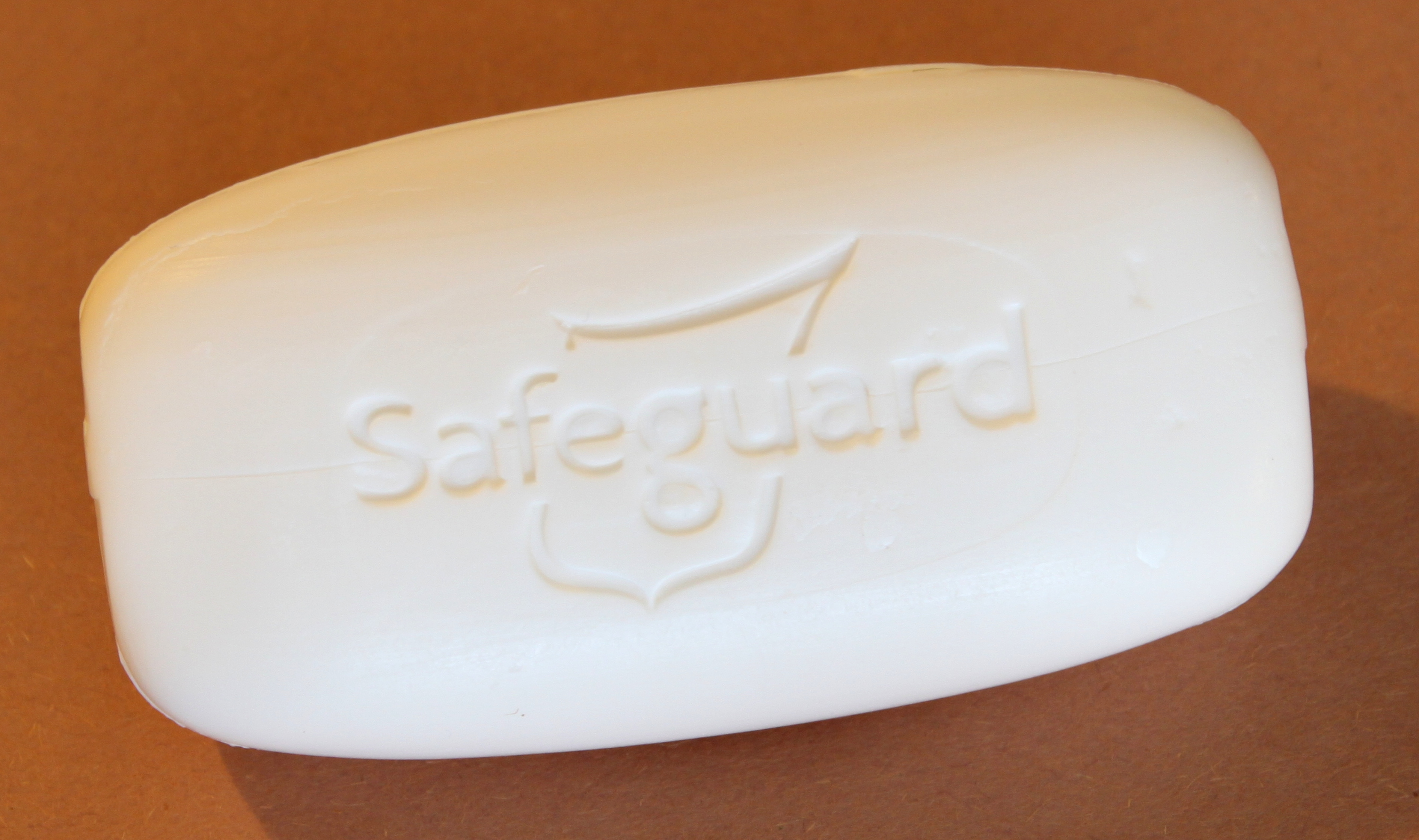 A bar of Safeguard deodorant soap, distributed by the Procter & Gamble company.